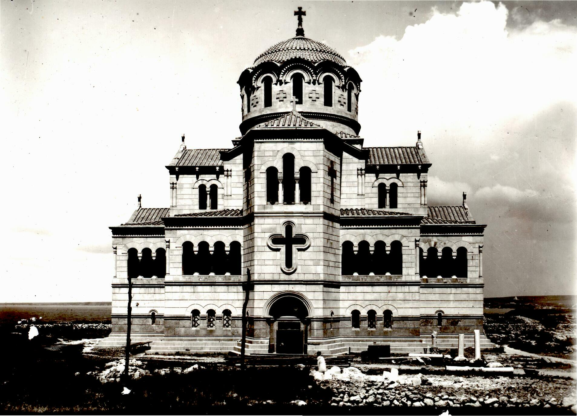 Chersonesos Taurica (Ukraine)